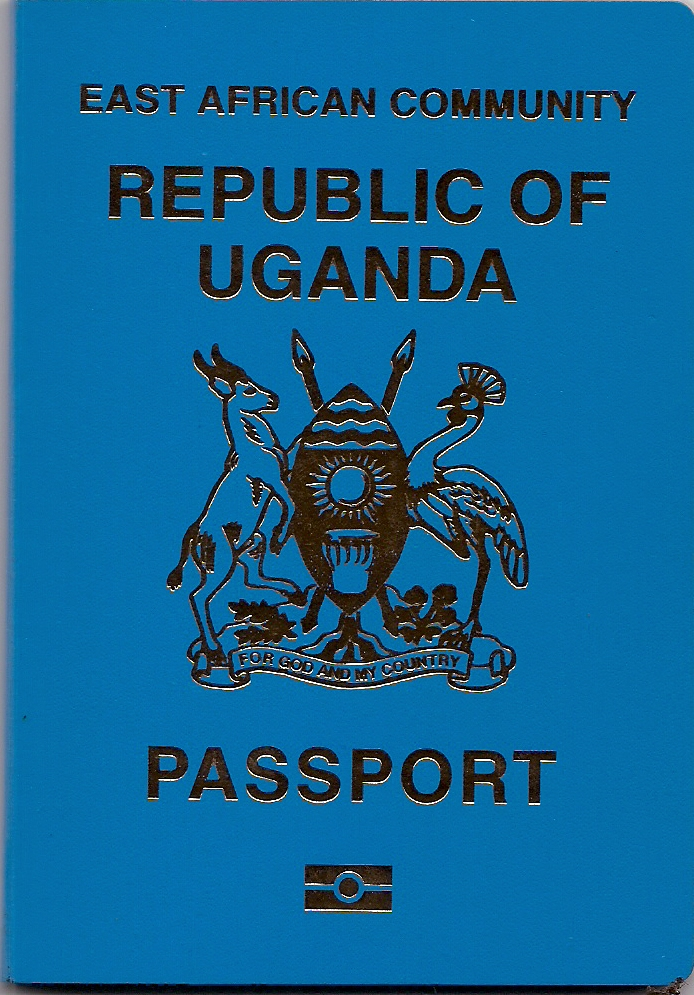 The Government of Uganda recently introduced new e-passports in accordance with an East African Community agreement. The ordinary e-passport is now Slay Blue and bears the words "East African Community" followed by "Republic of Uganda" to denote which state of the community that the holder is from